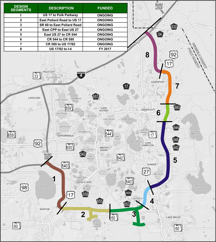 Map of the proposed Central Polk Parkway in Polk County. PD&E studies have been completed for all but the I-4 interchange and the project is currently (as of November 2014) in the design phase, except for the segment between U.S. Highway 17/92 and I-4 (segment 8 in picture).